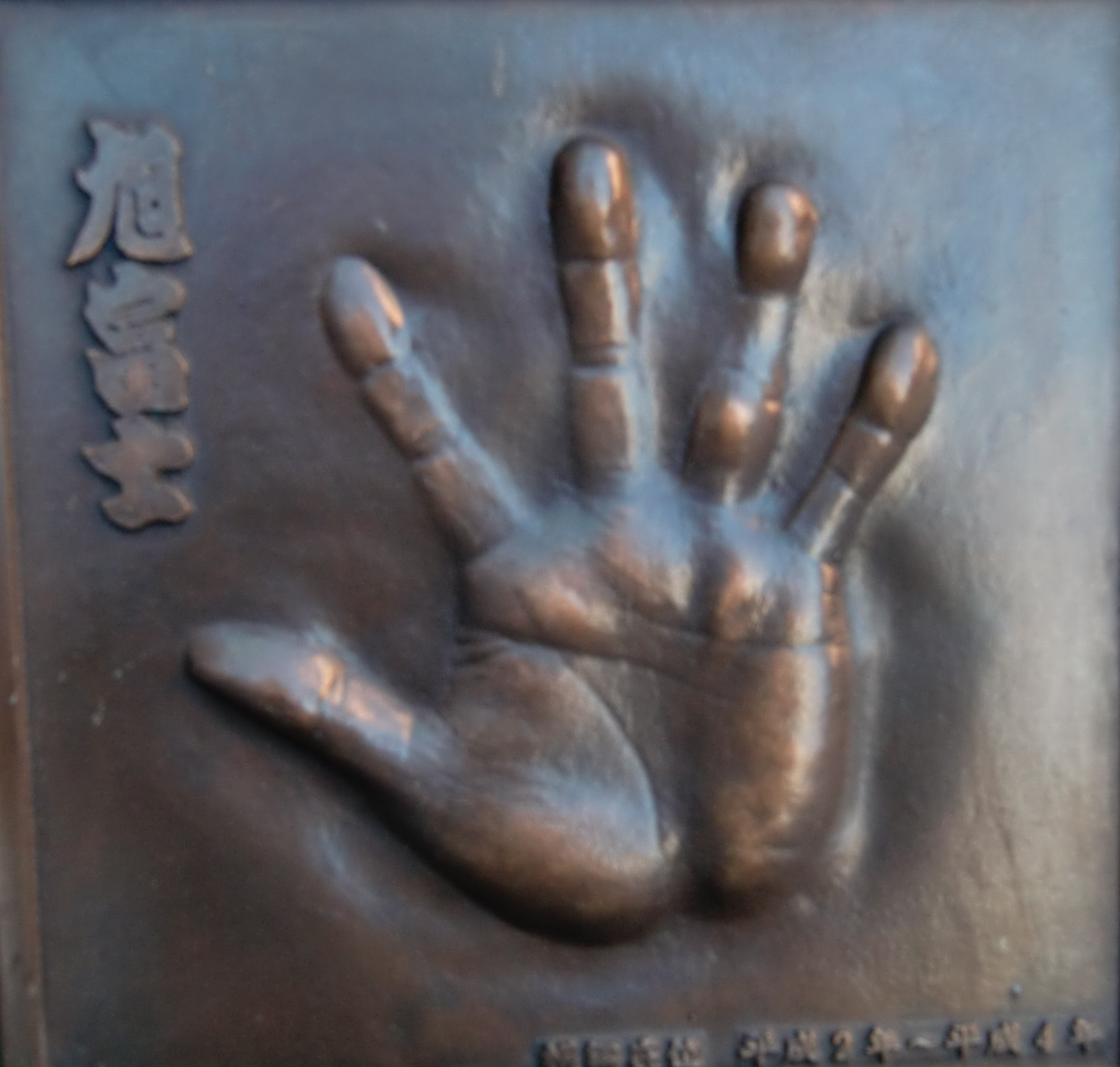 photo taken of wrestler's handprint from public monument in Ryogoku, Tokyo